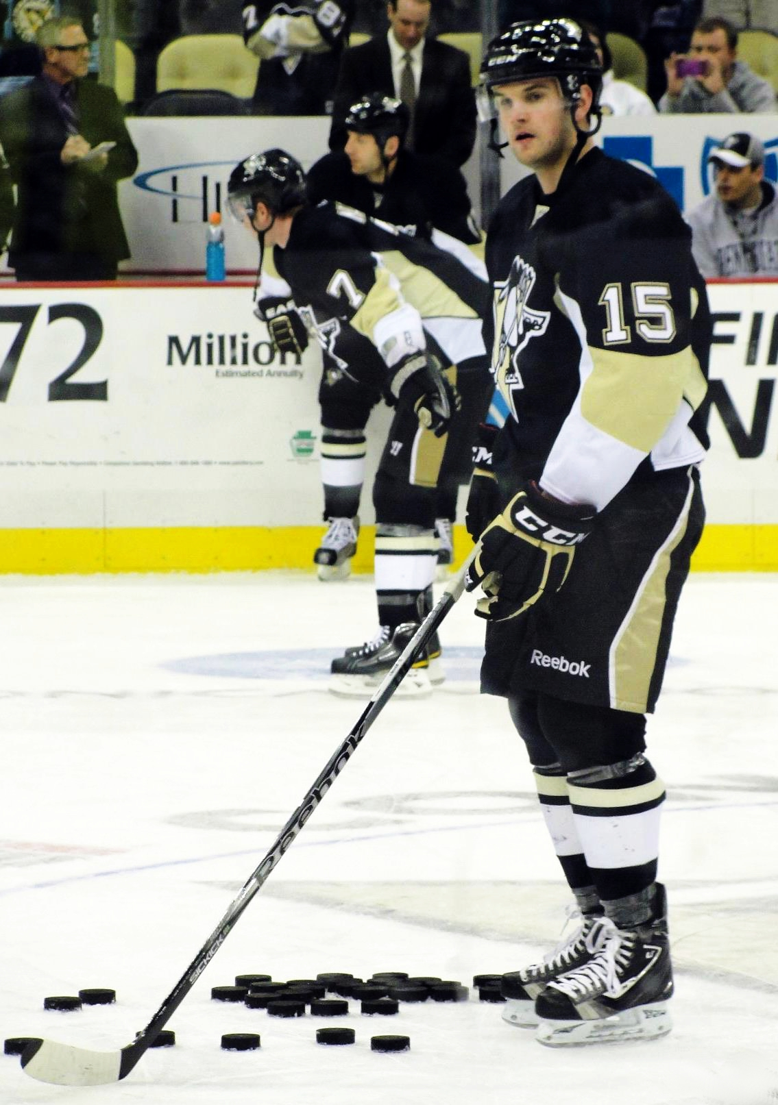 Dusting Jeffrey of the Pittsburgh Penguins warms up before a game against the Edmonton Oilers at Consol Energy Center in Pittsburgh, PA. March 13, 2011.